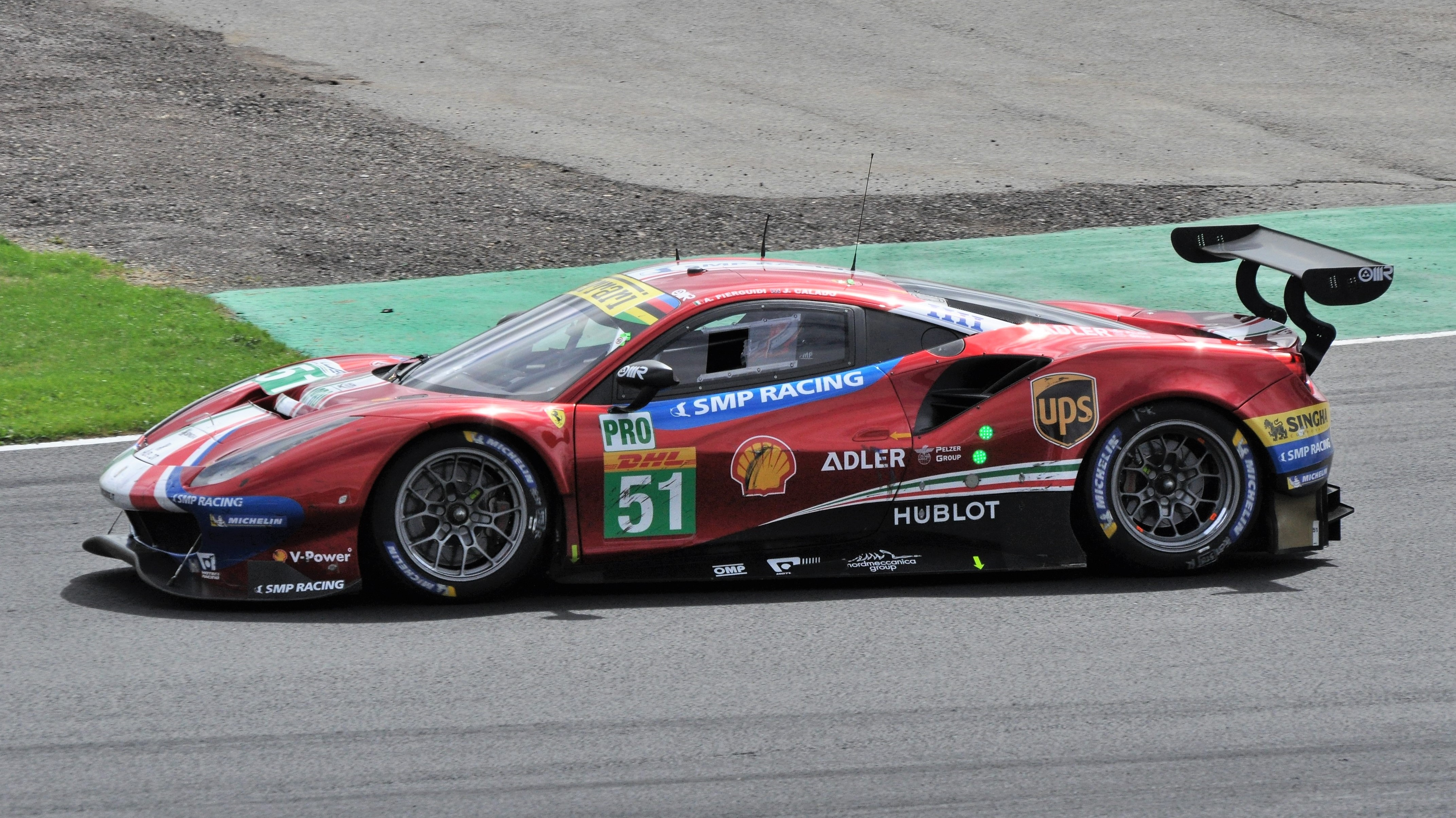 British driver James Calado, driving the number 51 AF Corse entry, at Village corner during the 2018 6 Hours of Silverstone race. Calado and his co-driver, Italian driver Alessandro Pier Guidi, were lying second in the LMGTE Pro class at the time this photo was taken, but went on to win.